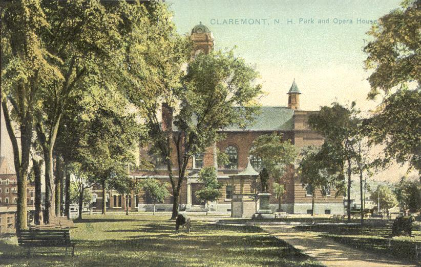 Broad Street Park and Opera House (City Hall), Claremont, New Hampshire